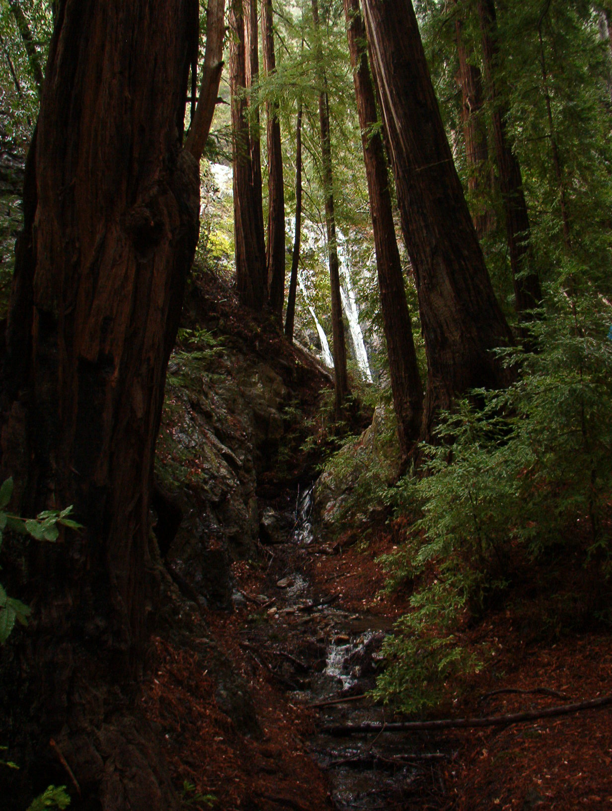 Forest of Sequoia sempervirens in Big Sur, California